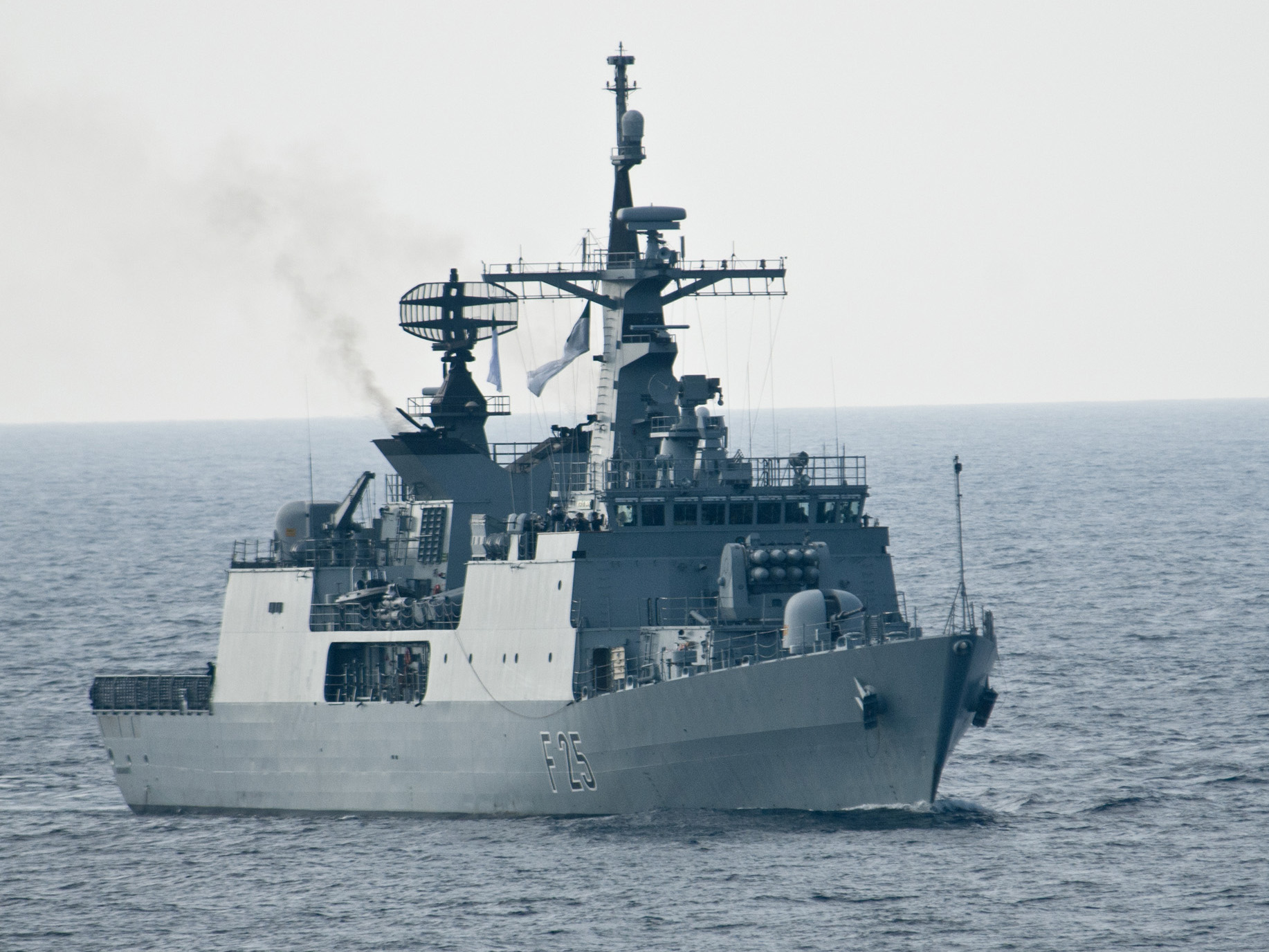 BAY OF BENGAL (Sept. 20, 2012) The Bangladesh Navy Ship Bangabandhu (F-25) steams off the coast of Bangladesh during Cooperation Afloat Readiness and Training (CARAT) 2012. CARAT is a series of bilateral military exercises between the U.S. Navy and the armed forces of Bangladesh, Brunei, Cambodia, Indonesia, Malaysia, the Philippines, Singapore, Thailand and Timor Leste. (U.S. Navy photo by Mass Communication Specialist 3rd Class Sean Furey)